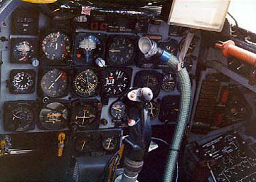 North American F-100D Cockpit